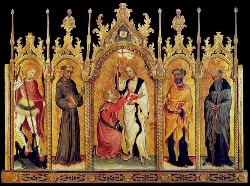 Zanino di Pietro (attr.), Incredulità di San Tommaso, Mombaroccio, Pinacoteca